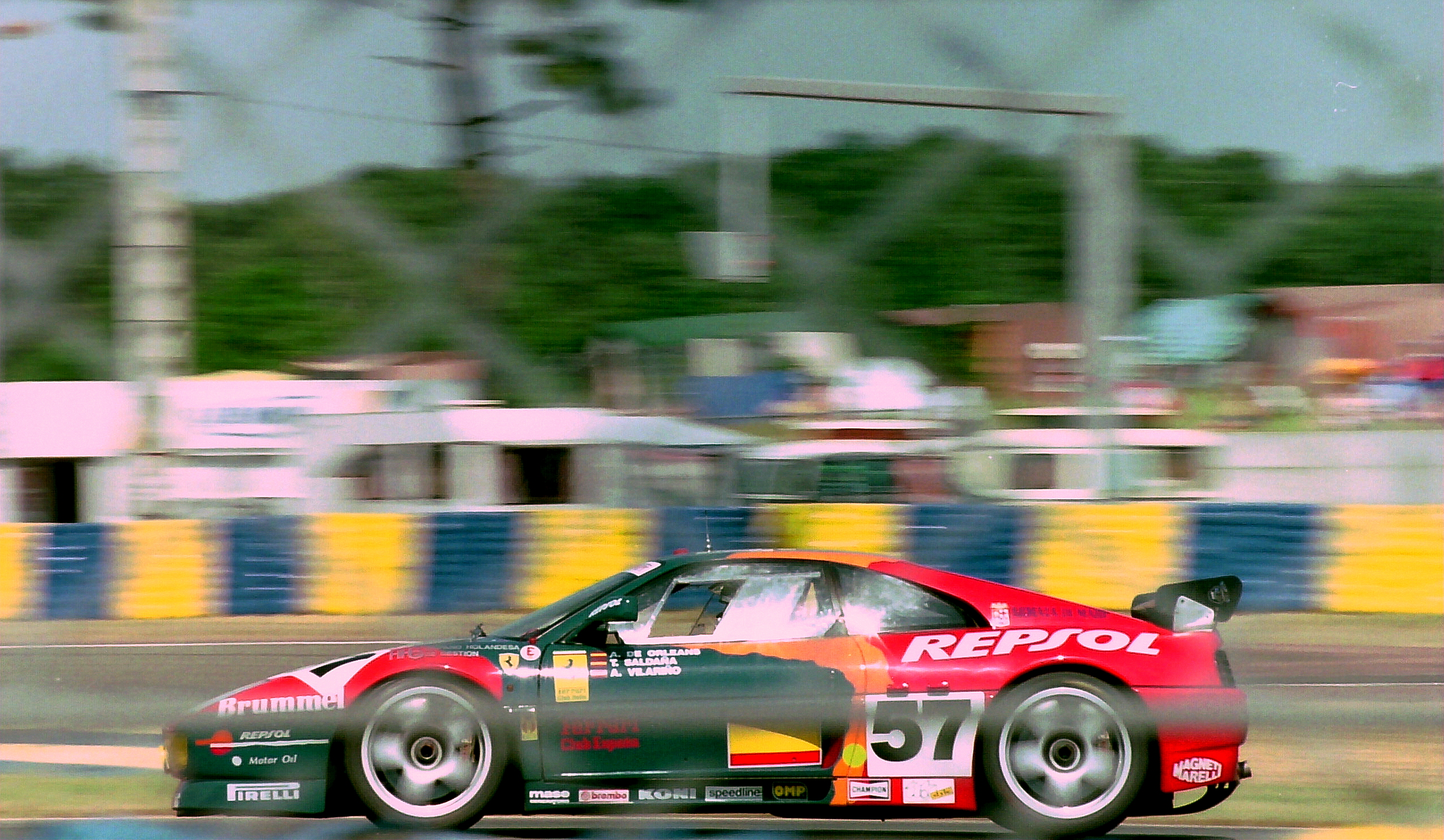 Ferrari 348 GTC-LM - Tomas Saldaria, Alfonso de Orleans & Andres Vilarino at the 1994 Le Mans